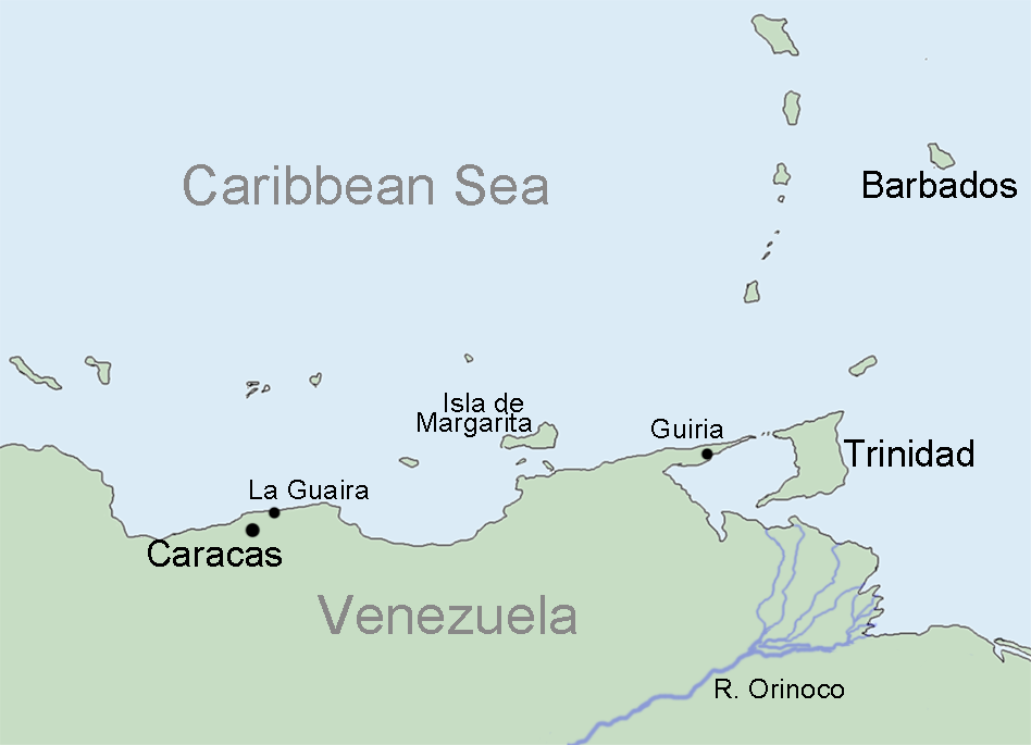 Map of Venezuelan coast and part of Caribbean showing places visited by James Stirling